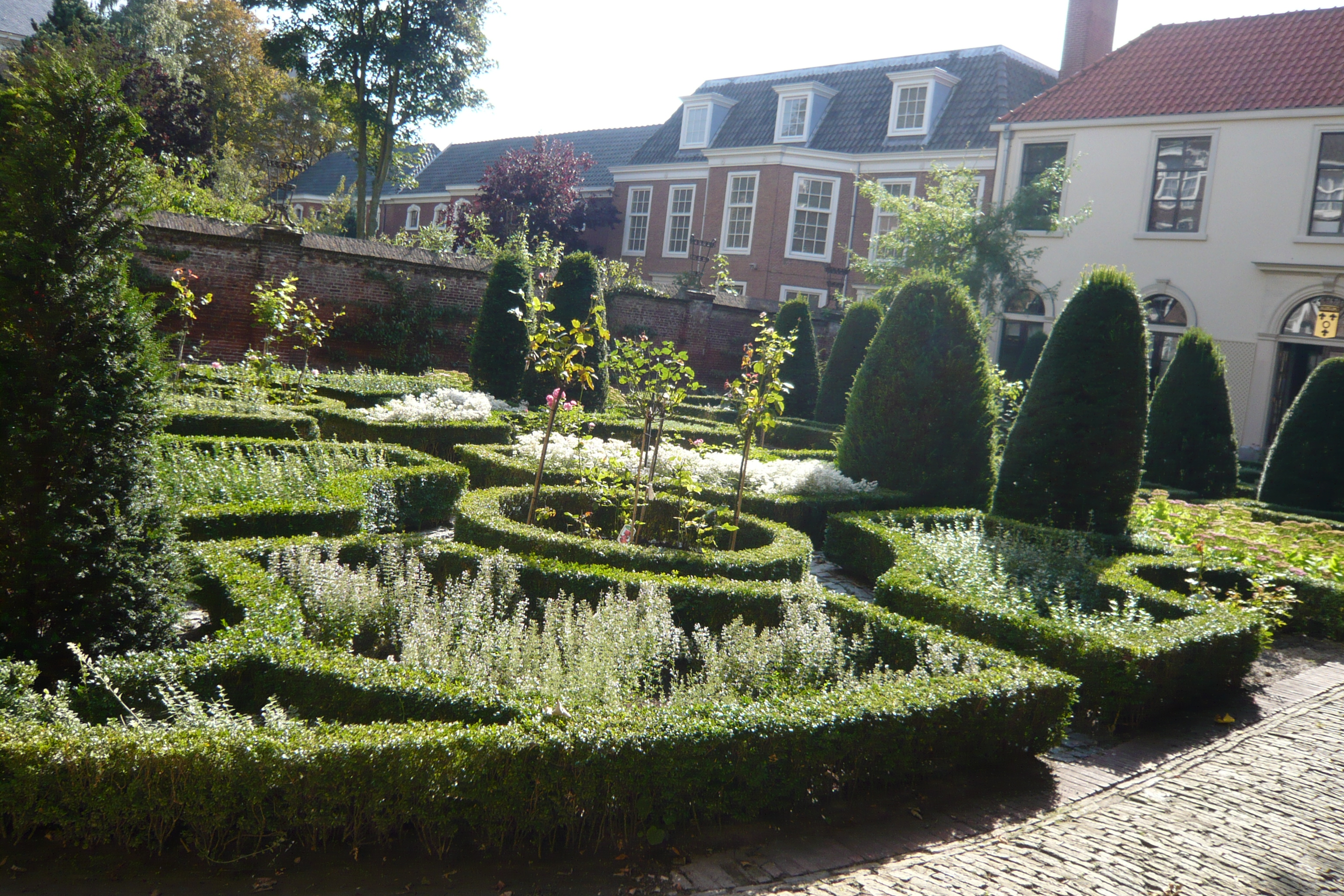 Garden of Meermanno museum in the Hague.